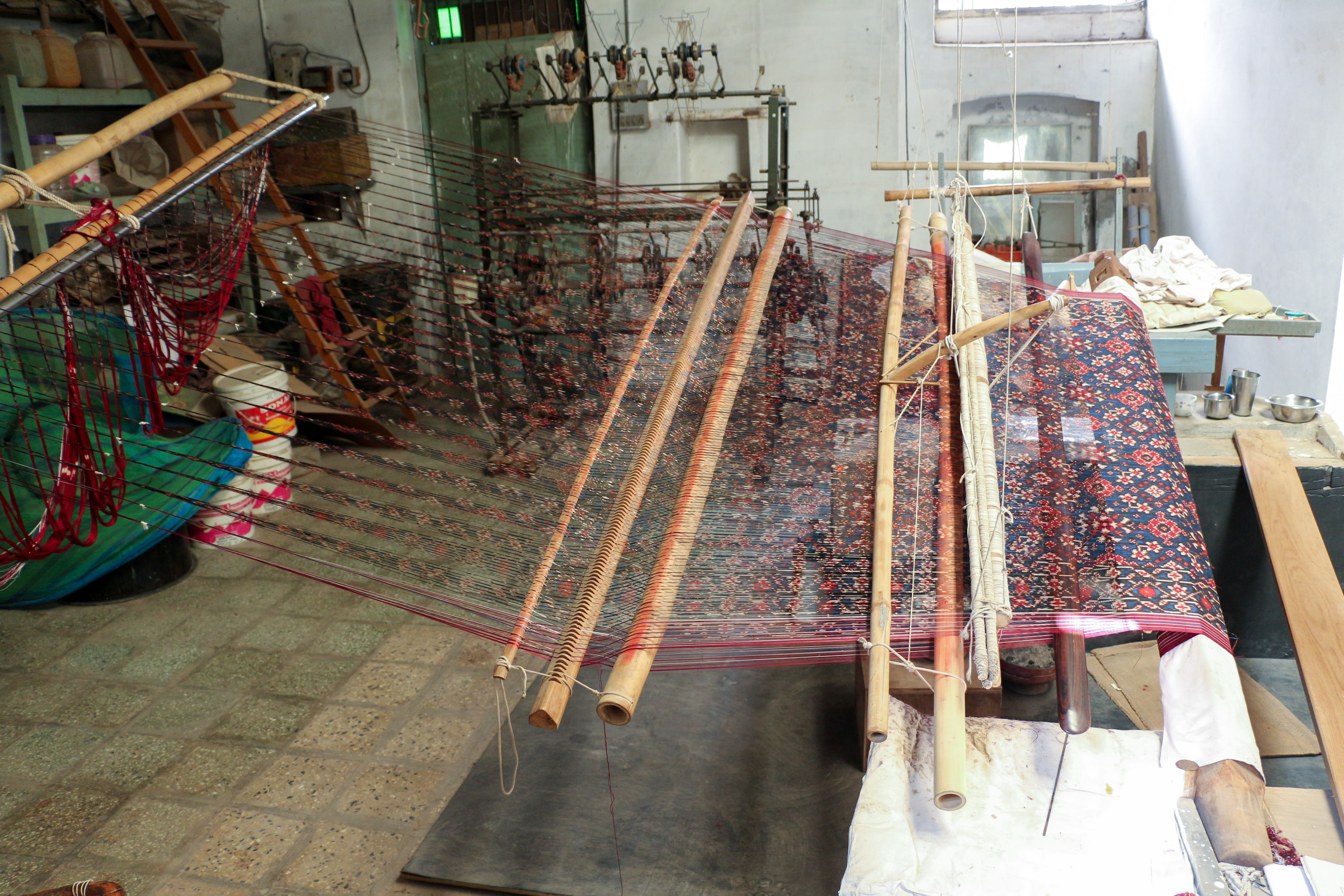 A loom using to weave patolas, Patan, India